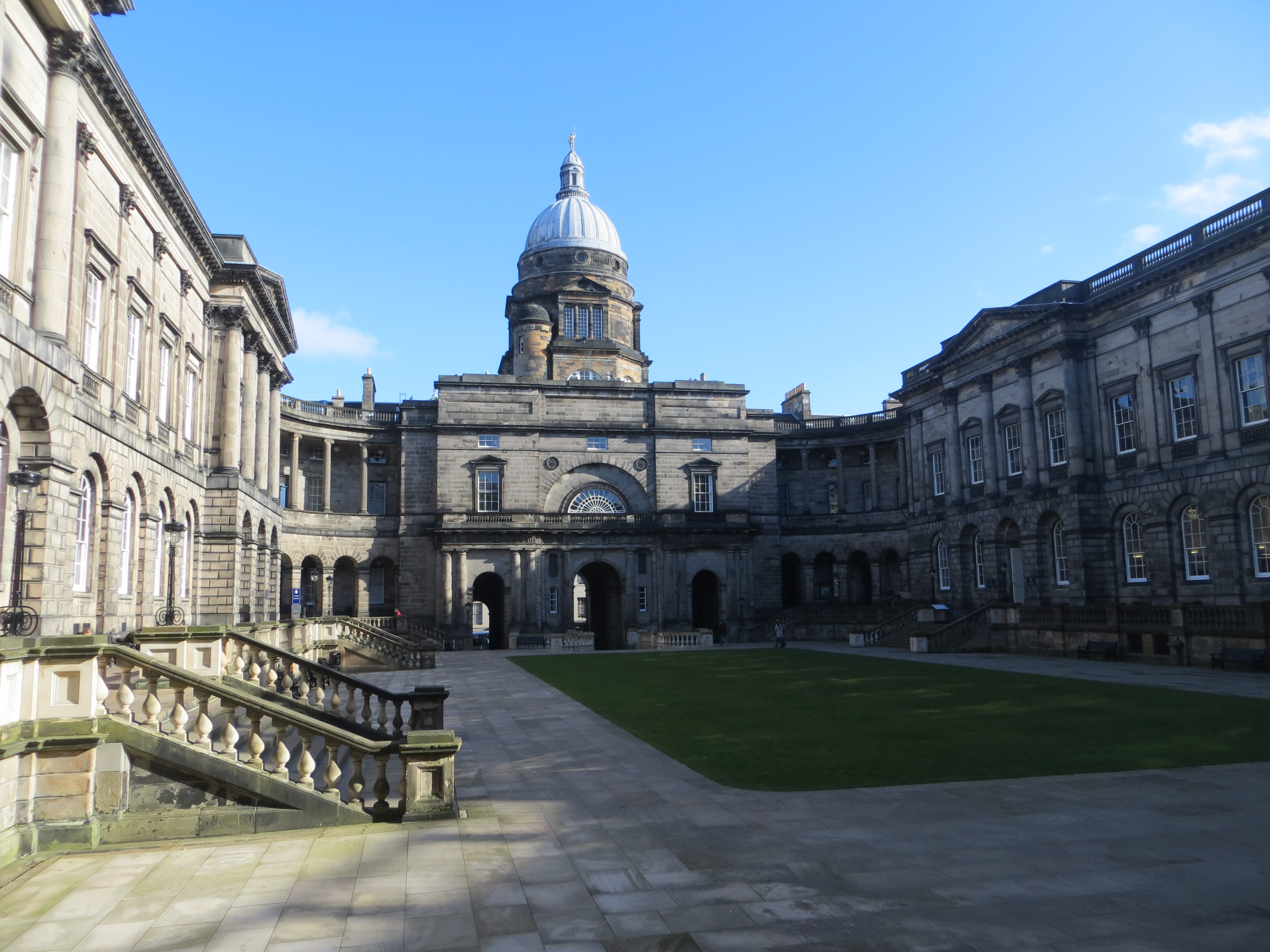 Edinburgh University, Old College, Feb 2014